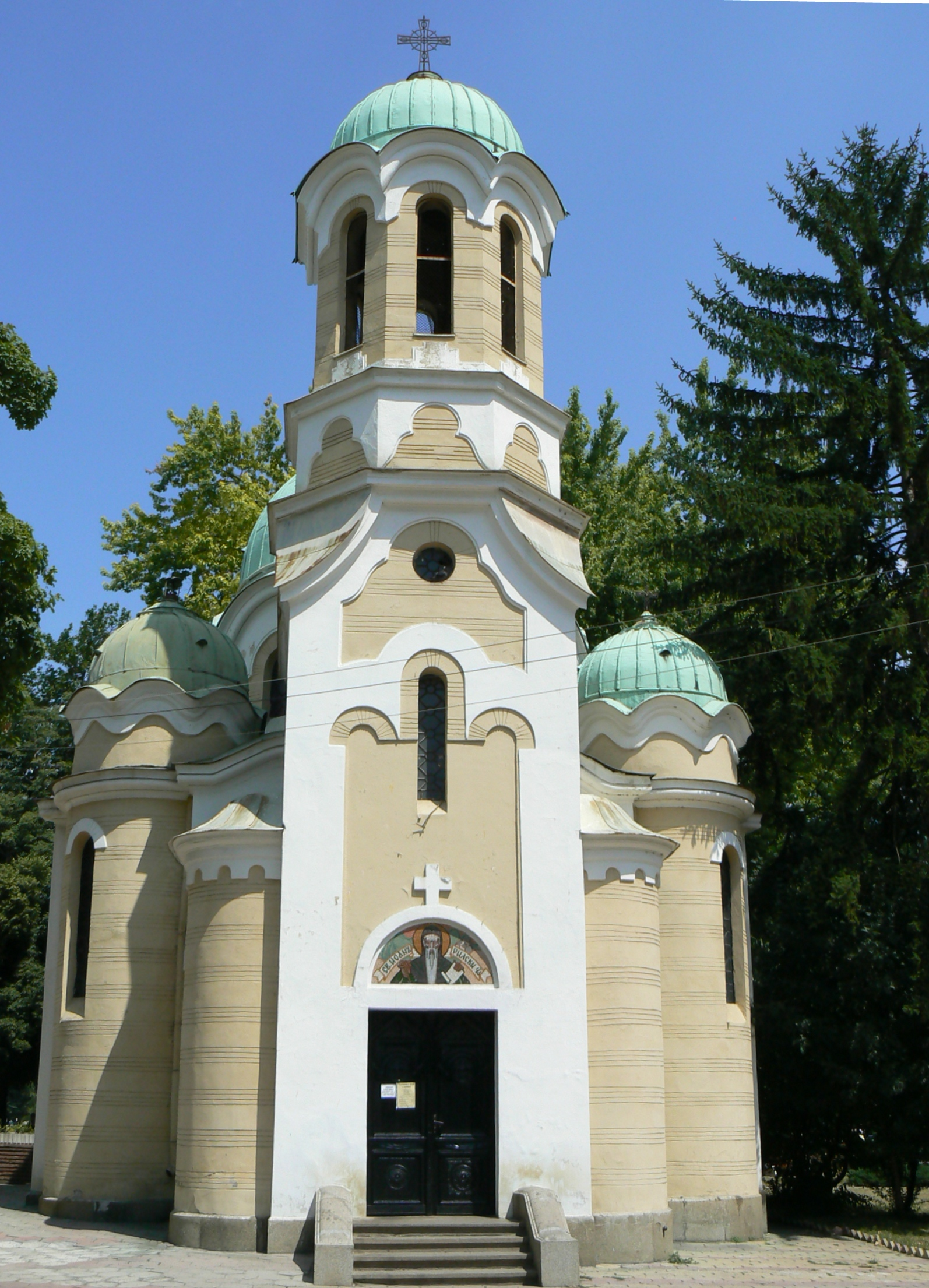 Church "Saint Ivan Rilski" in Pernik, Bulgaria